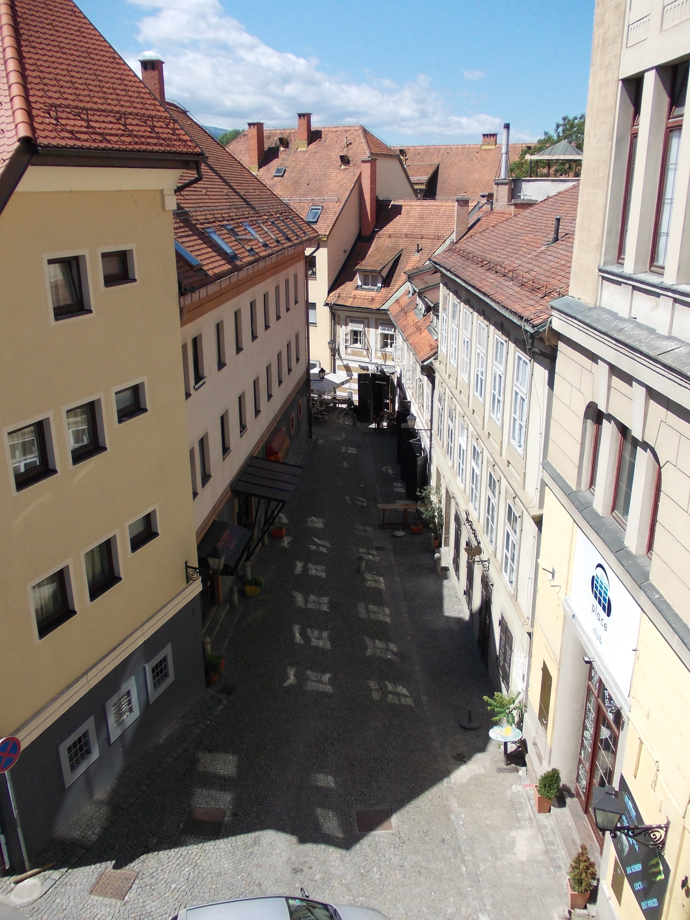 Dravska ulica, Maribor